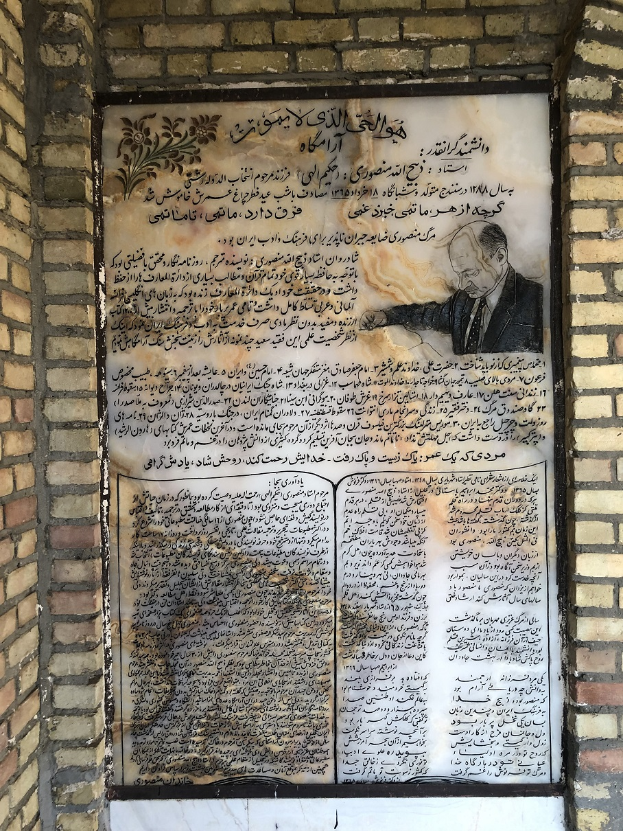 Beheshte Zahra Cemetery